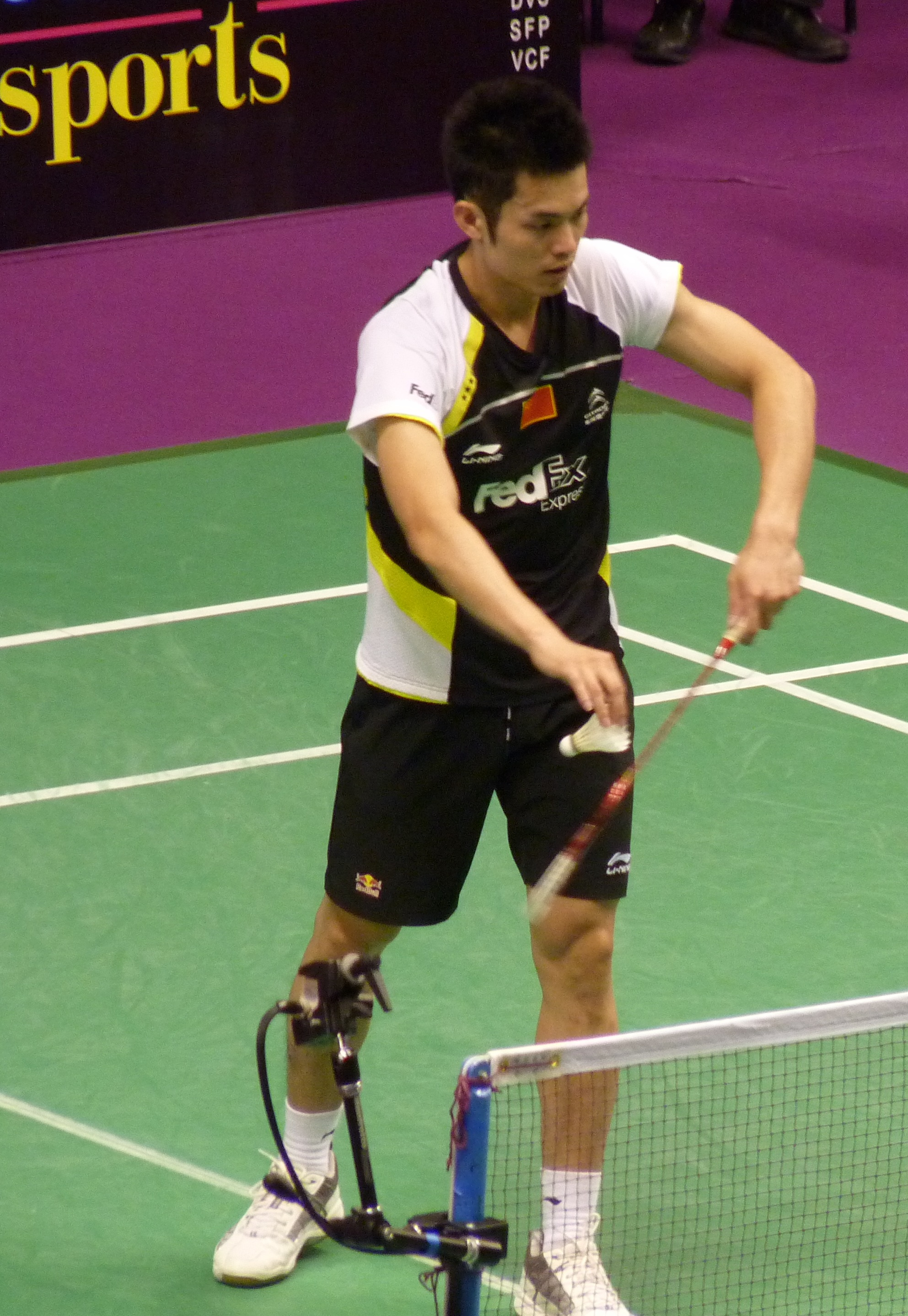 Lin Dan (CHN)